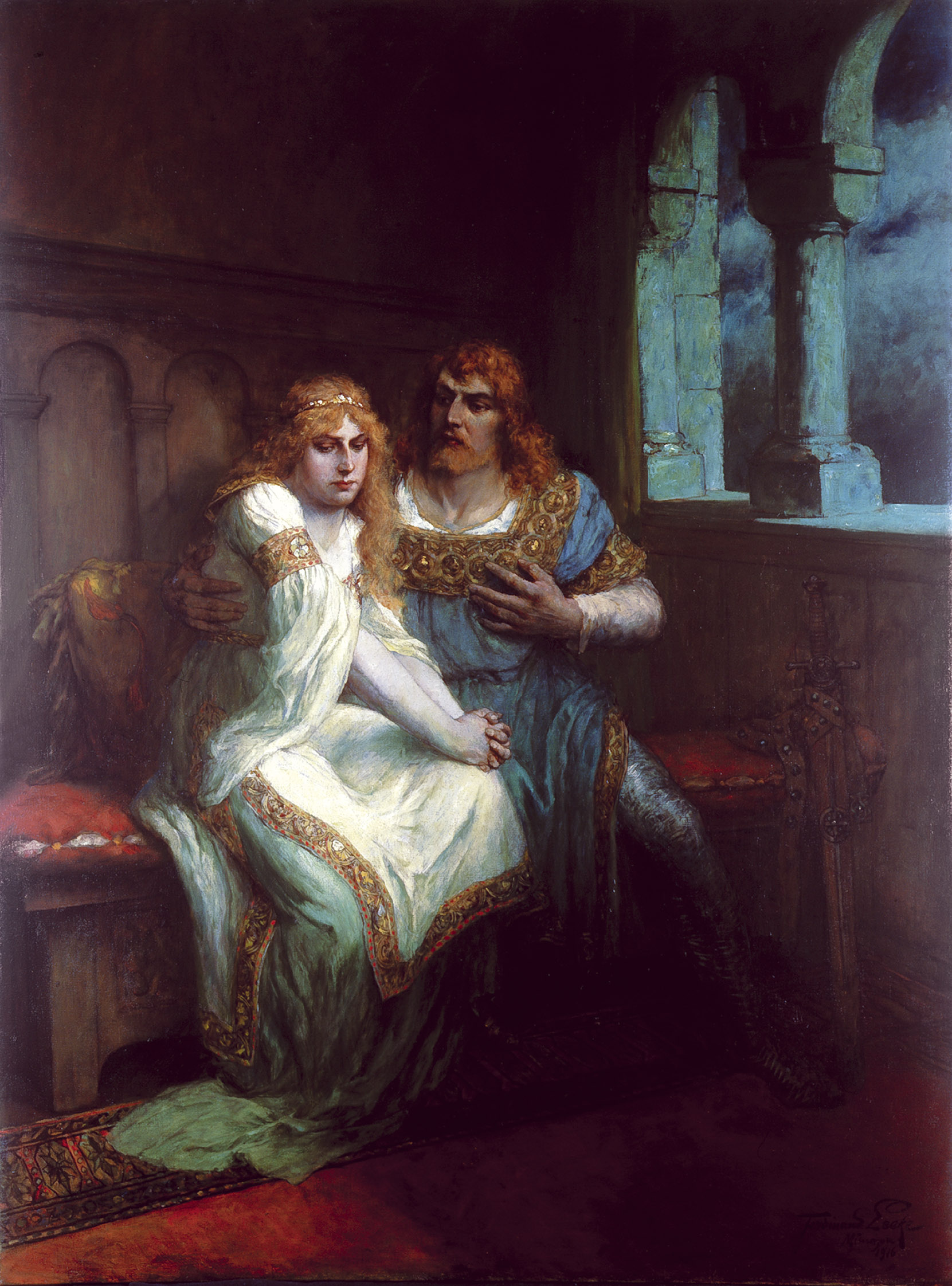 Lohengrin by German painter Ferdinand Leeke, oil on canvas, 135.5 × 100 cm